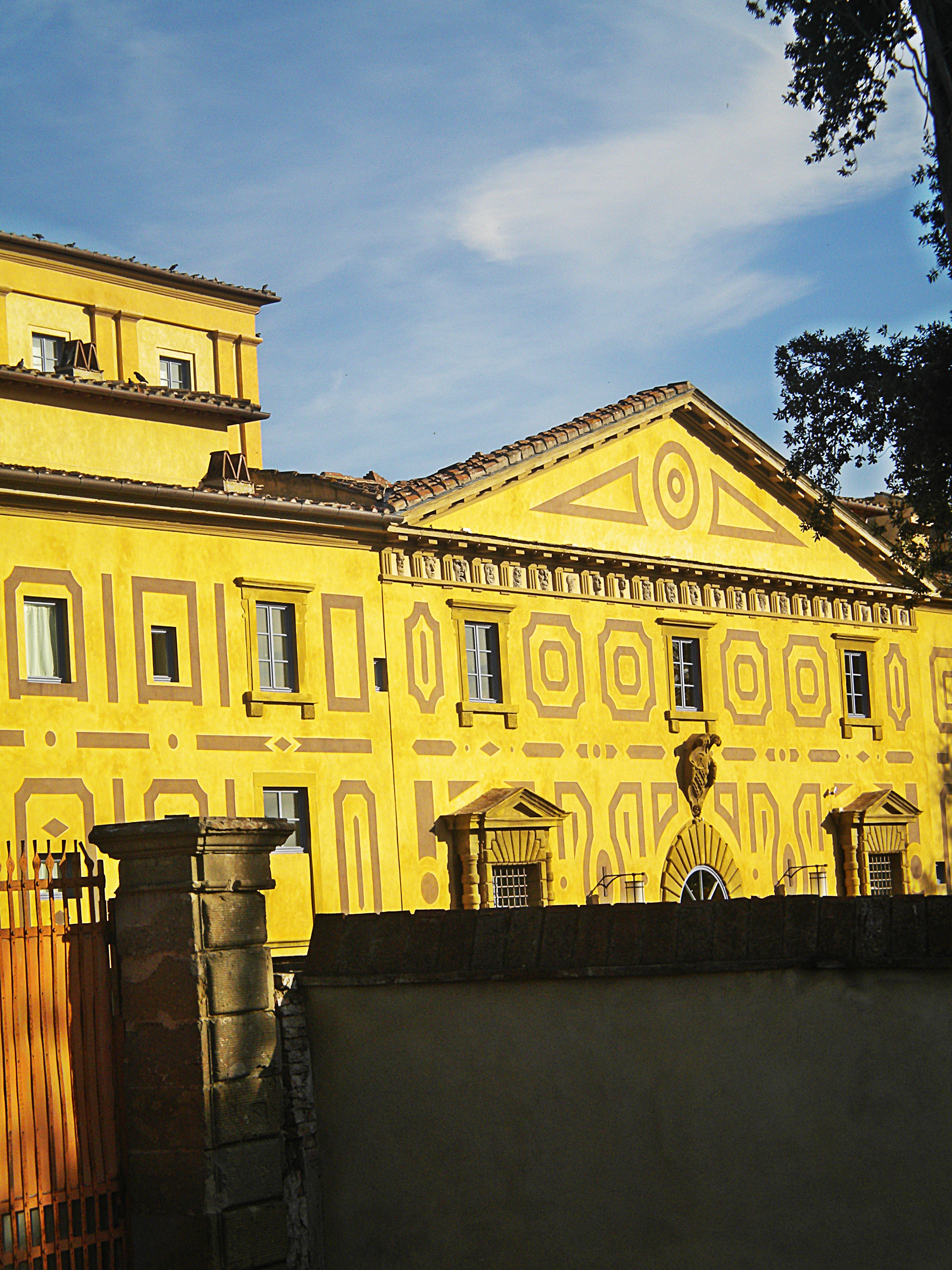 the roof